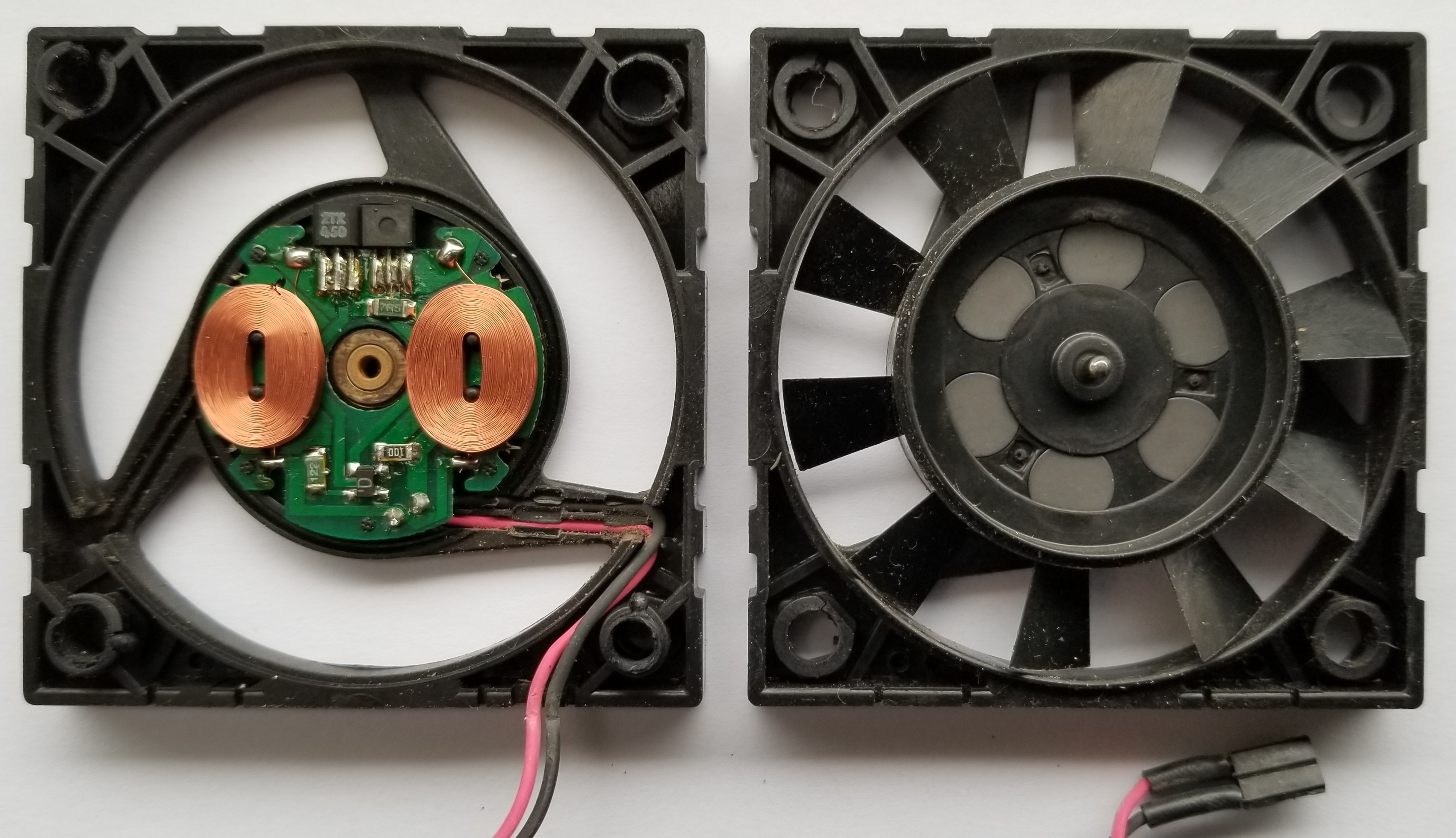 Brushless DC electric motor from a cooling fan